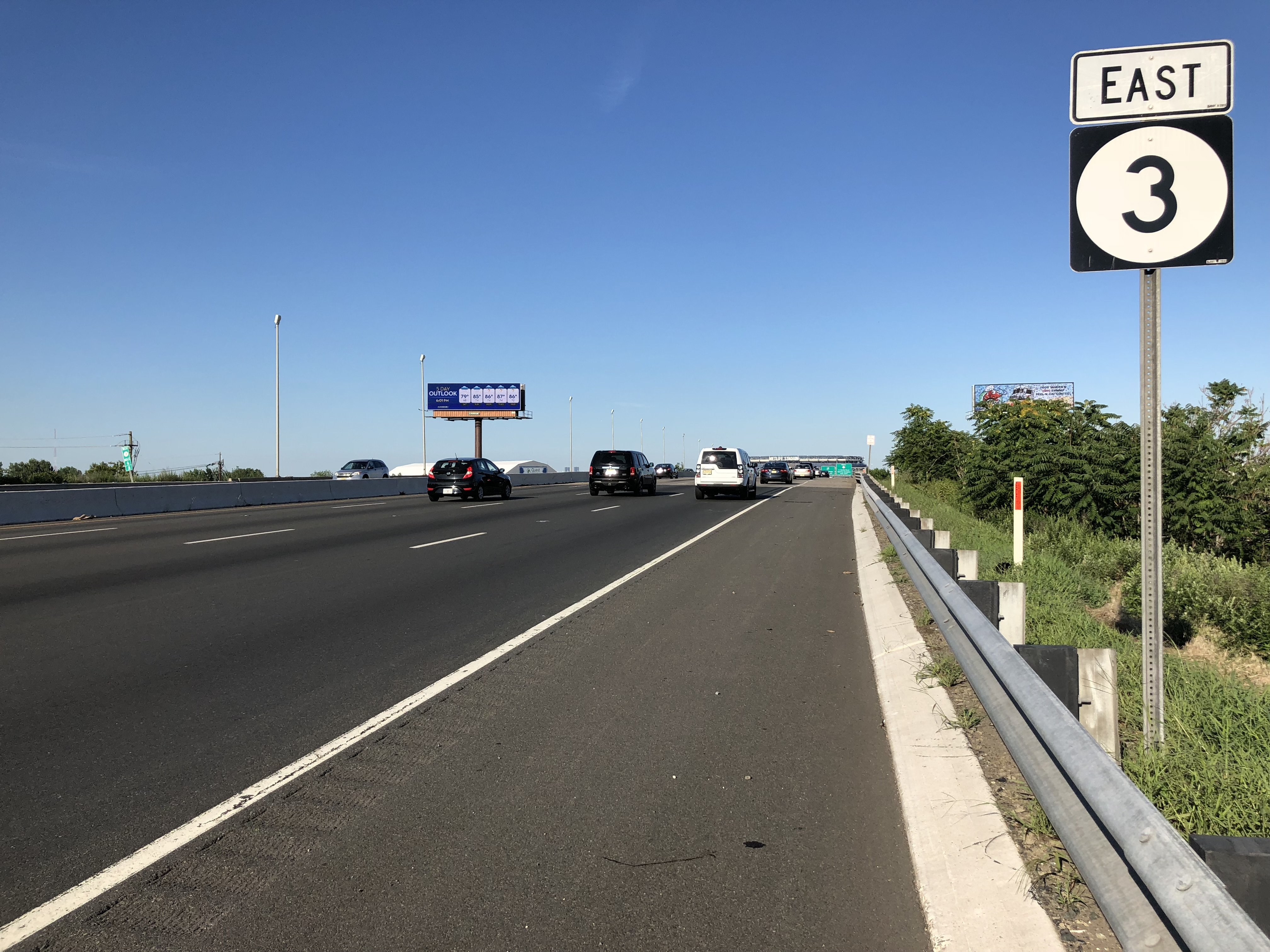 View east along New Jersey State Route 3 (Secaucus Bypass) just east of New Jersey State Route 17 in Rutherford, Bergen County, New Jersey